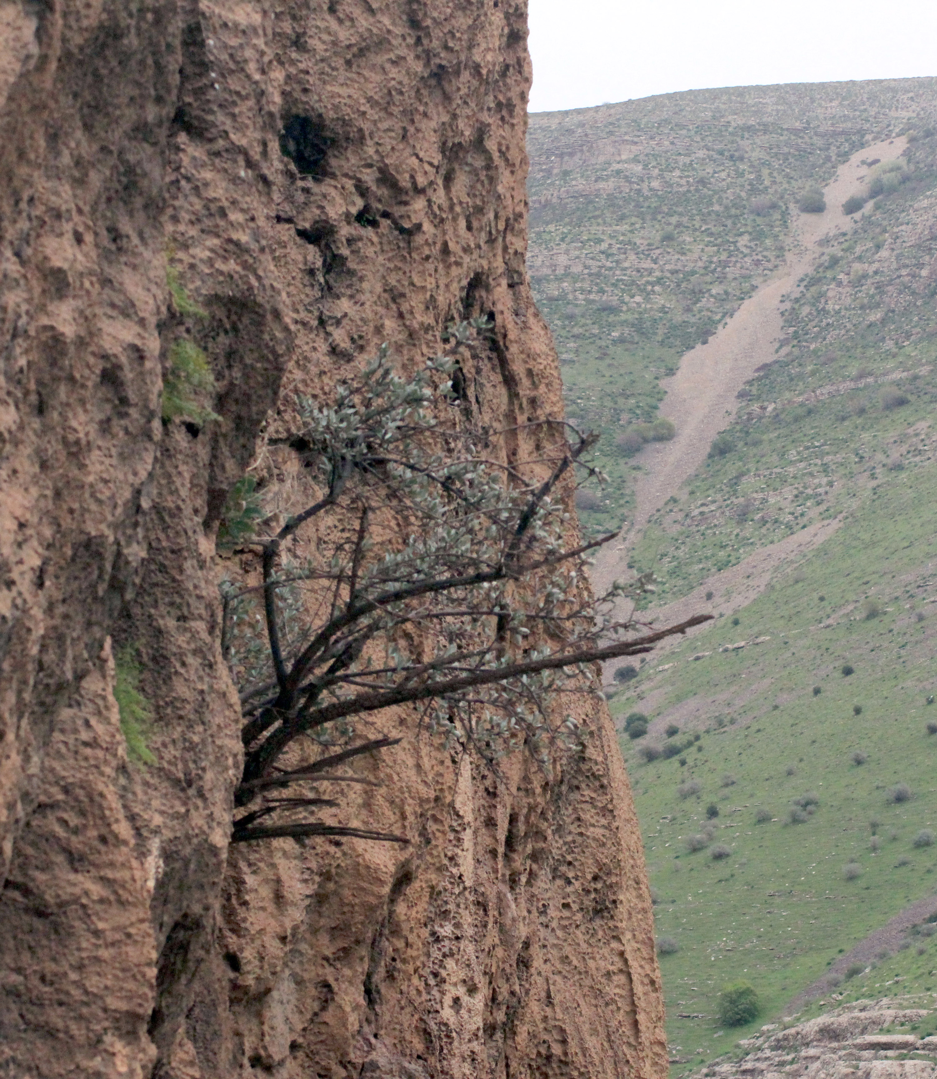 Picture of Prunus scoparia tree taken in Gilazard valley in mountain Piramagrun Kurdistan - Sulaimani I uploaded this picture because the article about Prunus scoparia does not have any pictures.